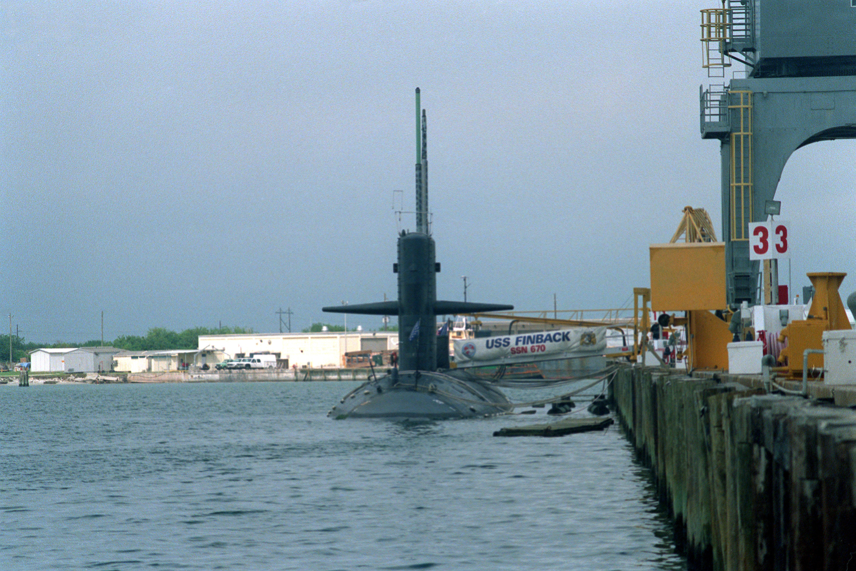 A bow view of the Sturgeon class nuclear-powered attack submarine USS FINBACK (SSN-670) tied up at pier side.Location: PORT CANAVERAL, FLORIDA (FL) UNITED STATES OF AMERICA (USA)